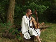 Lugsciath of Clochsliaph, Founder of the Order of Clochsliaph - photographed on a pagan event at Münzenberg, Germany. Traditional handmade druidic clothes and irish handharp.